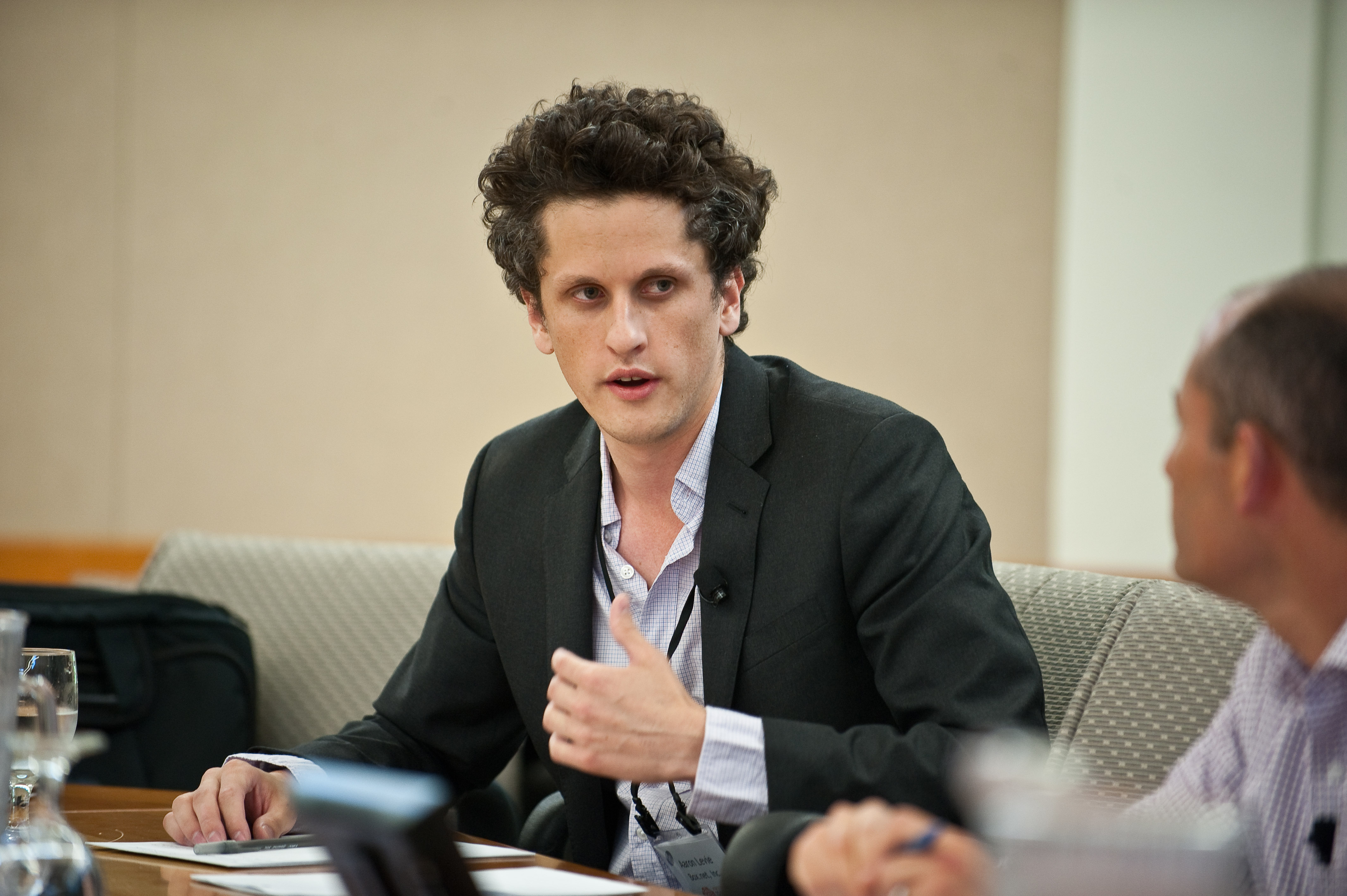 July 20, 2011--Aspen, CO, USA Aaron Levie, Co-founder and CEO, Box, speaks at "The Cloud Rises: The Latest From a Ten-Year-Old Trend" along with Michael Crandell, Co-founder and CEO, RightScale, John Dillon, CEO, Engine Yard, Lanham Napier, President and CEO, Rackspace, and the moderator Peter Goldmacher of Cowen and Co. at Fortune Brainstorm TECH at the Aspen Institute Campus. Photograph by Stuart Isett/Fortune Brainstorm TECH